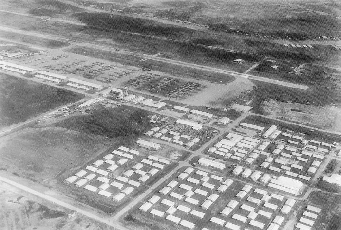 Aerial photograph of Binh Thuy Air Base, South Vietnam.